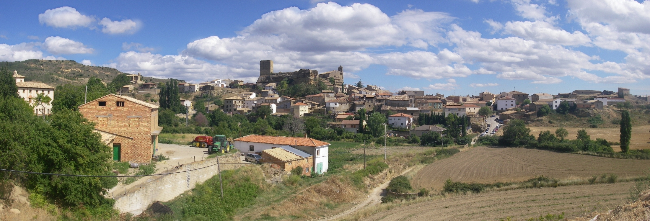 View of Luesia (Zaragoza, Aragon, Spain)